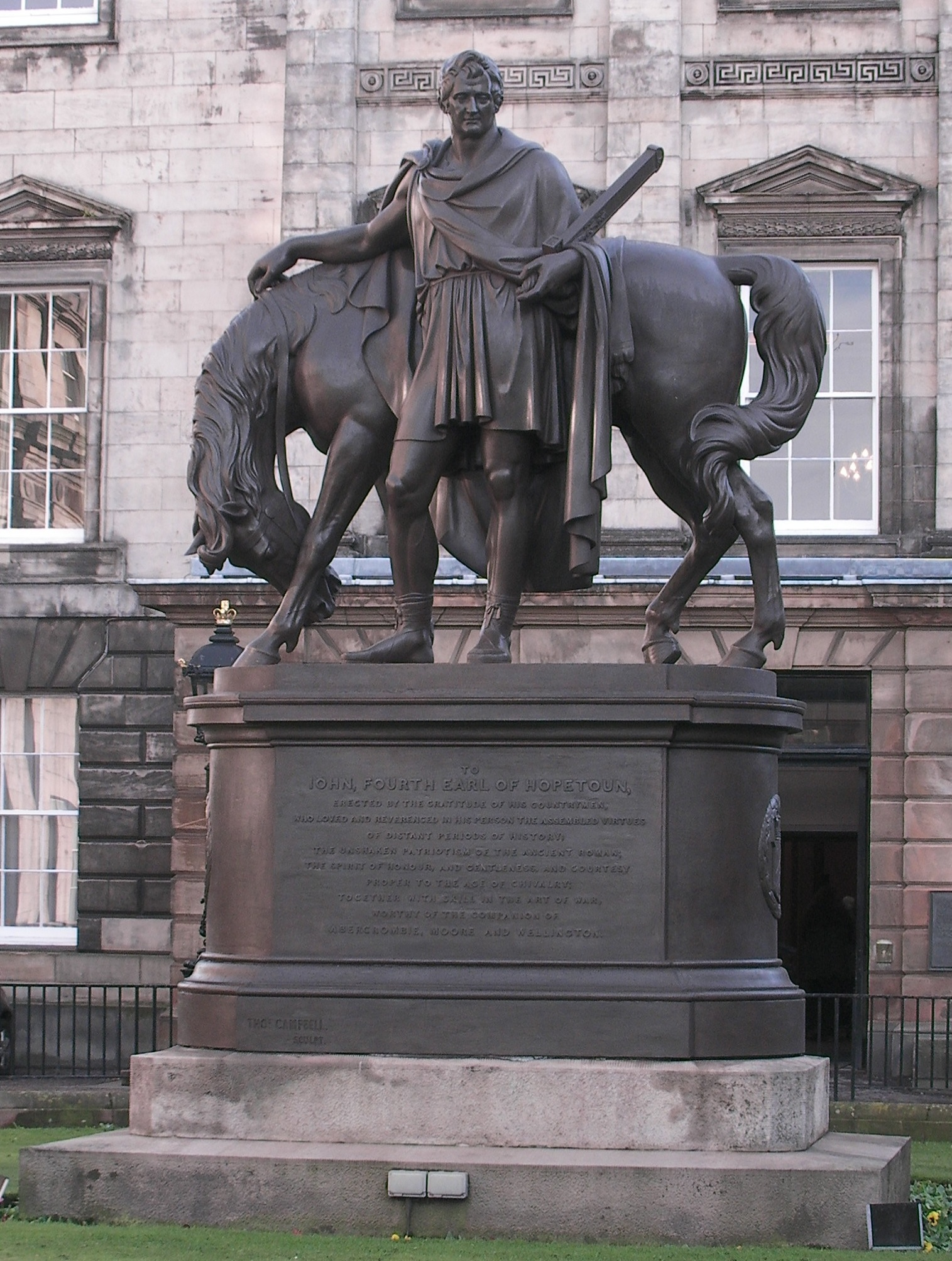 Statue of John Hope the 4th Earl of Hopetoun in Edinburgh.